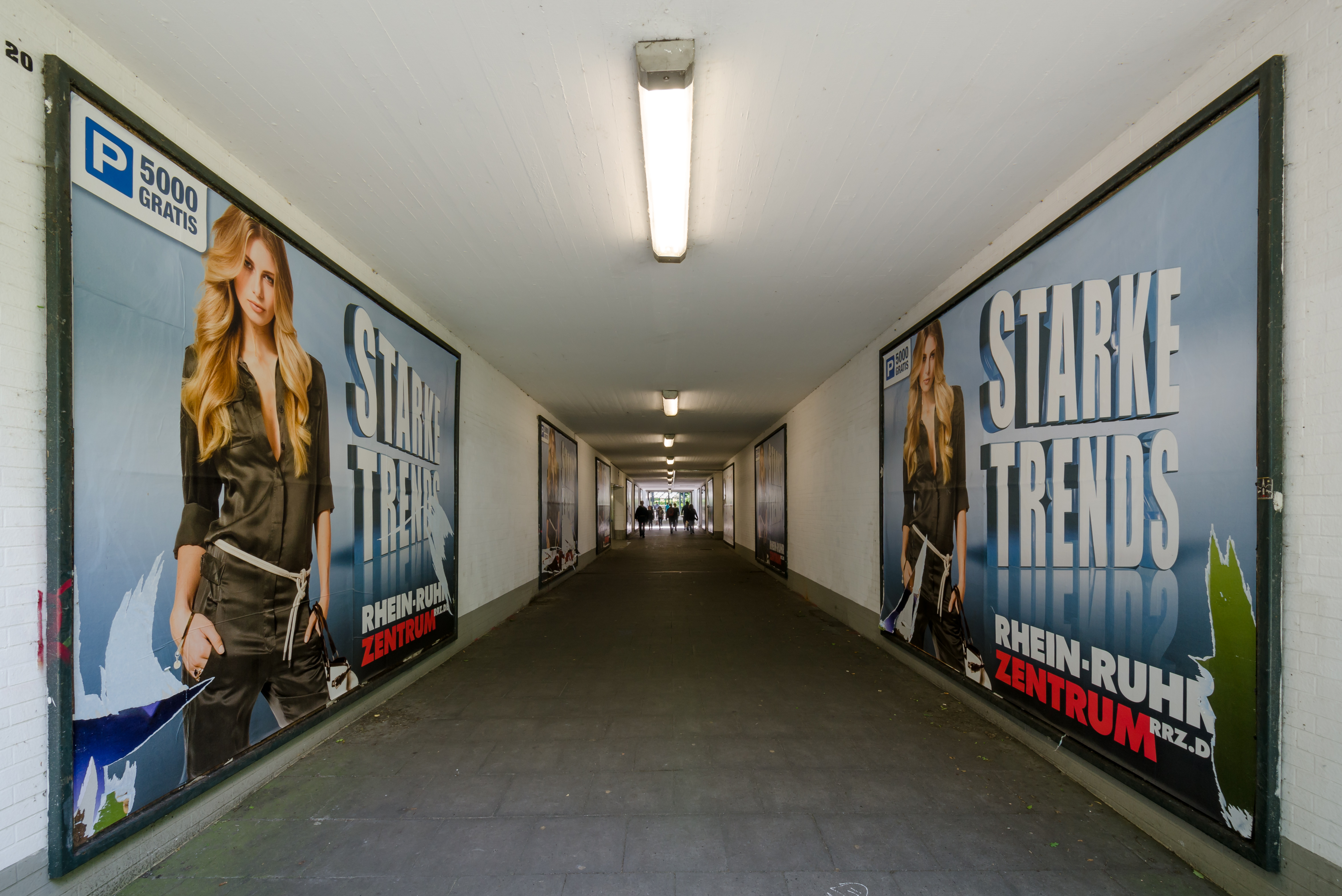 Transit from the Underground stop of line U18 to the RheinRuhrZentrum (shopping center)